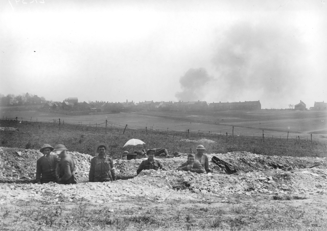 Australian soldiers occupying a position around Villers-Bretonneux, France, 2 May 1918. Throughout April to June, the Australians in the sector undertook a series of raids, known as "peaceful penetrations", securing small parts of the German line.